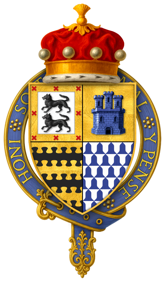 Coat of arms of Sir William Blount, 4th Baron Mountjoy, KG BURKE, Sir Bernard, The General Armory of England, Scotland, Ireland, and Wales: Comprising a Registry of Armorial Bearings from the Earliest to the Present Time, London: Harrison & sons, 1884. “Blount (Lord Mountjoy and Earl of Devonshire...). Same Arms" [Barry nebulée of six or and sa.].”